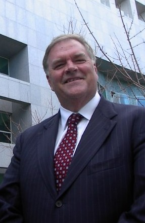 Photo of Kim Beazley, taken at Parliament House, Canberra, July 2004.